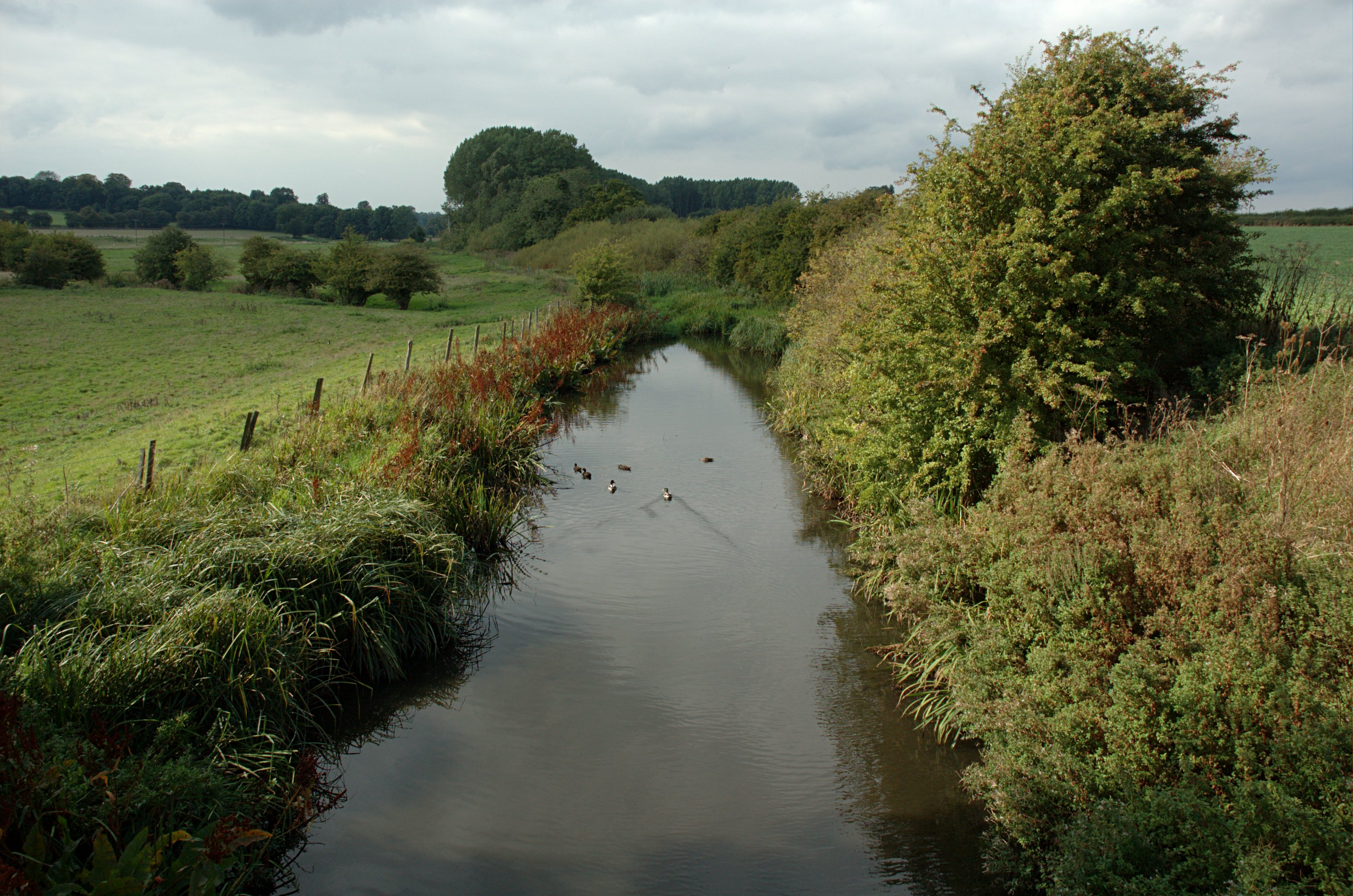 River Ver west of St Albans, from Bluehouse Hill. Hertfordshire, England, UK.